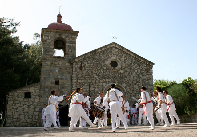 The Folk Group Tataratà at Eremo di Santa Croce (Casteltermini AG Sicily ITALY)